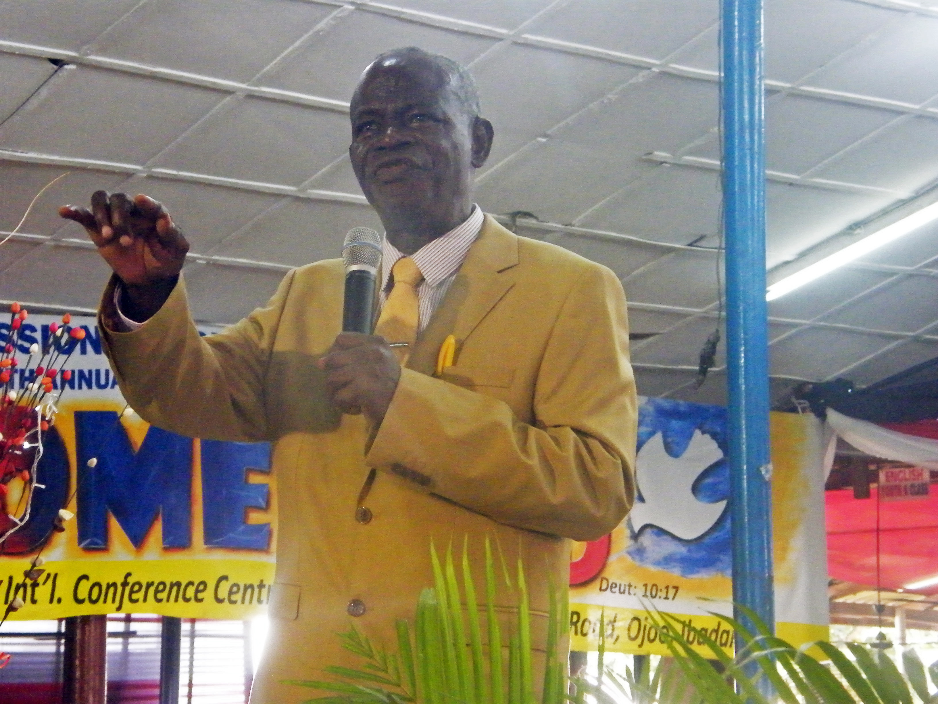 Pastor Elijah Abina during the GOFAMINT 2013 Convention at Ojoo Ibadan Oyo State, Nigeria